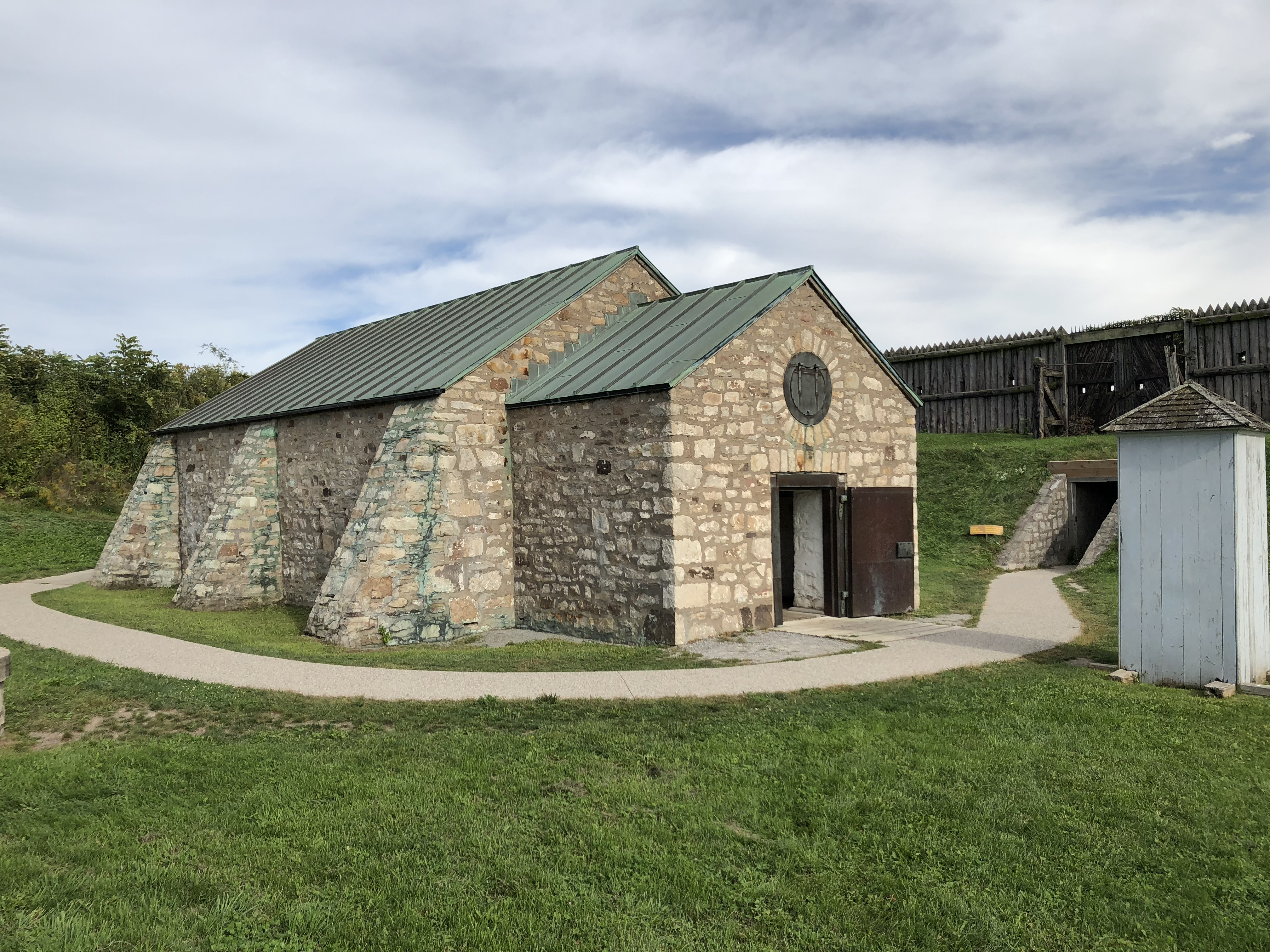 Built from 1796 to 1797, the magazine building is the only original building in Fort George at the Niagara On The Lake, Ontario Canada.